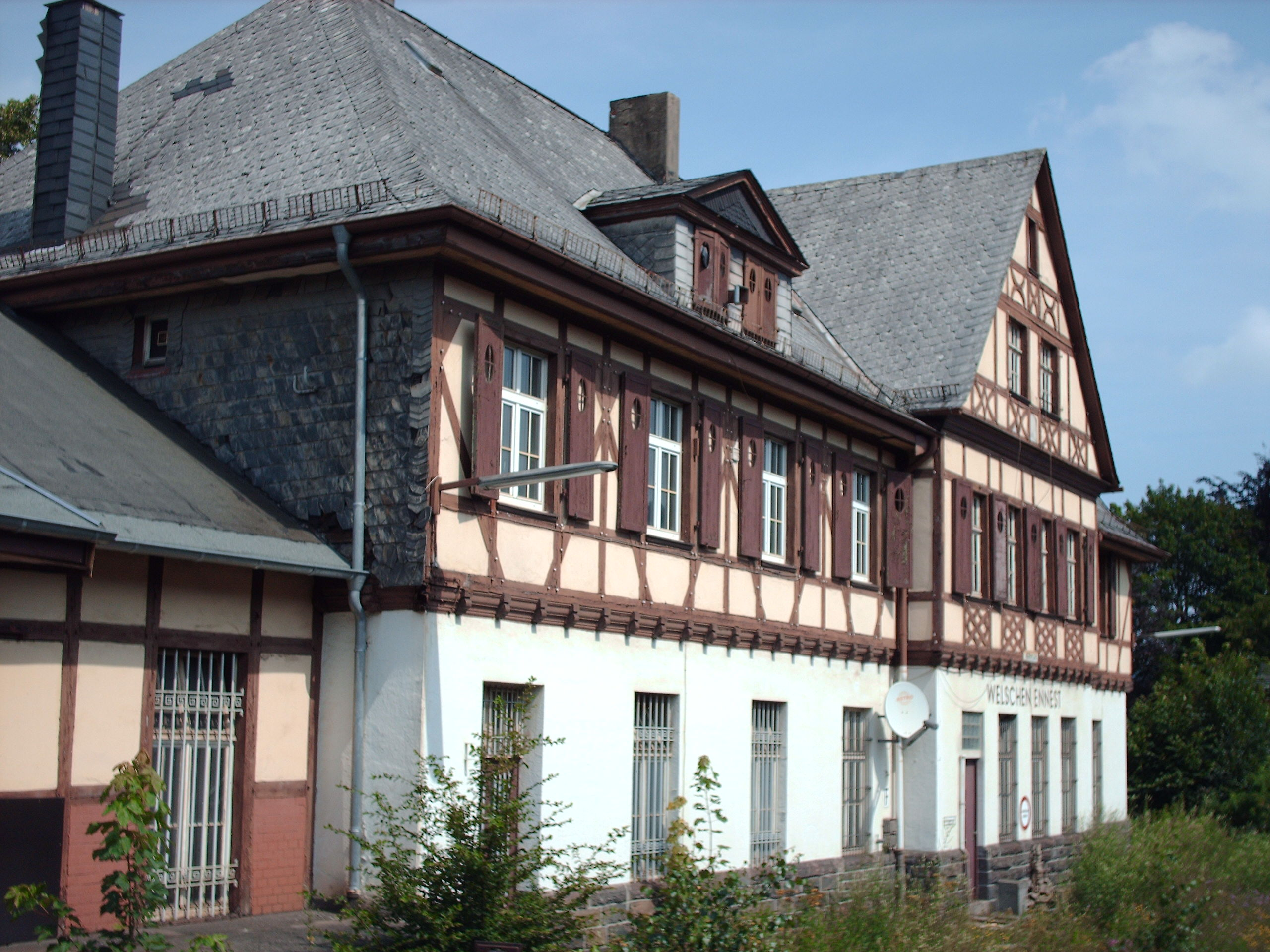 Welschen Ennest station, Kirchhundem, Germany check usage